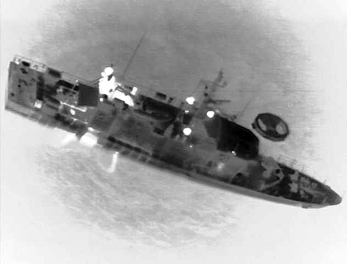 RED SEA (Feb 4, 2006) - Infrared image taken from U.S. Navy P-3C Orion maritime patrol aircraft, assisting in search and rescue operations for survivors of the Egyptian ferry Al Salam Boccaccio 98 in the Red Sea, shows a rescue vessel alongside a life raft. The aircraft, assigned to the Golden Swordsmen of Patrol Squadron (VP-47), flew for almost 15 hours during the mission to assist local authorities in the search efforts. VP-47 is homeported at Marine Corps Base Hawaii, Kaneohe Bay, and is currently supporting missions in the U.S. Central Command (USCENTCOM) area of operations. U.S. Navy photo (RELEASED)